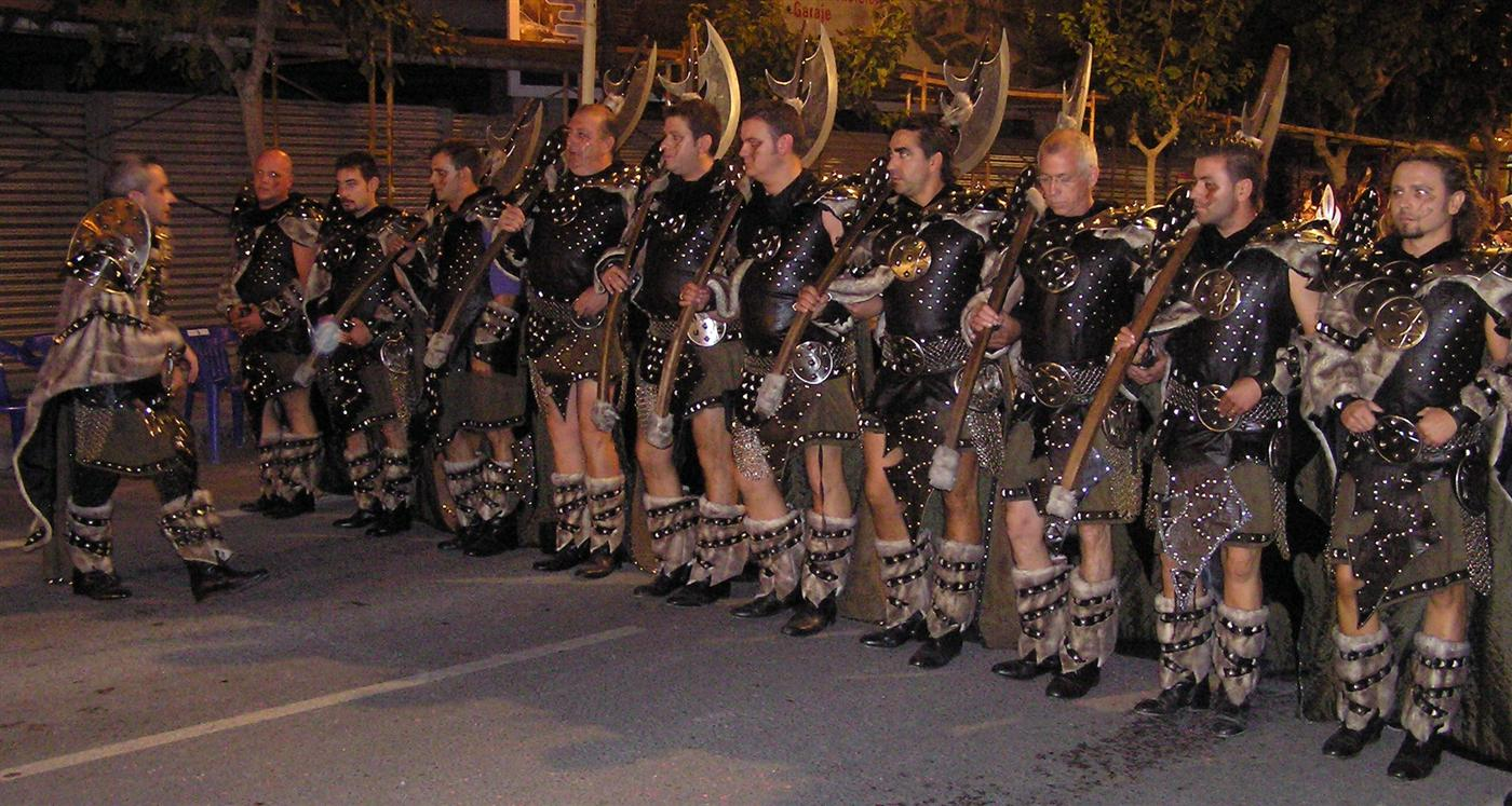 Photo of Moorish Costumes worn at El Campello Moros y Cristians festival